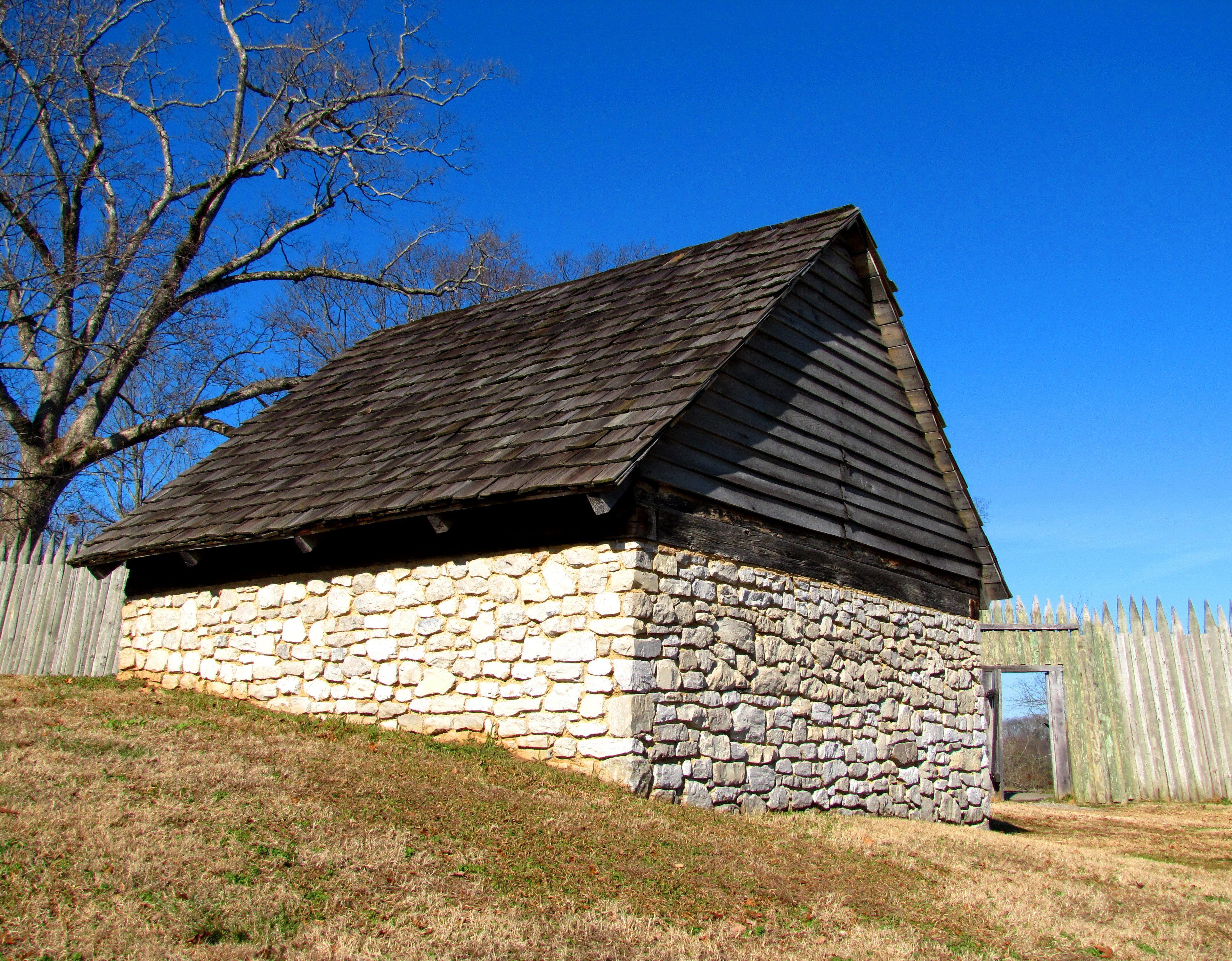 Powder magazine at the reconstructed Fort Loudoun in Monroe County, Tennessee, United States.